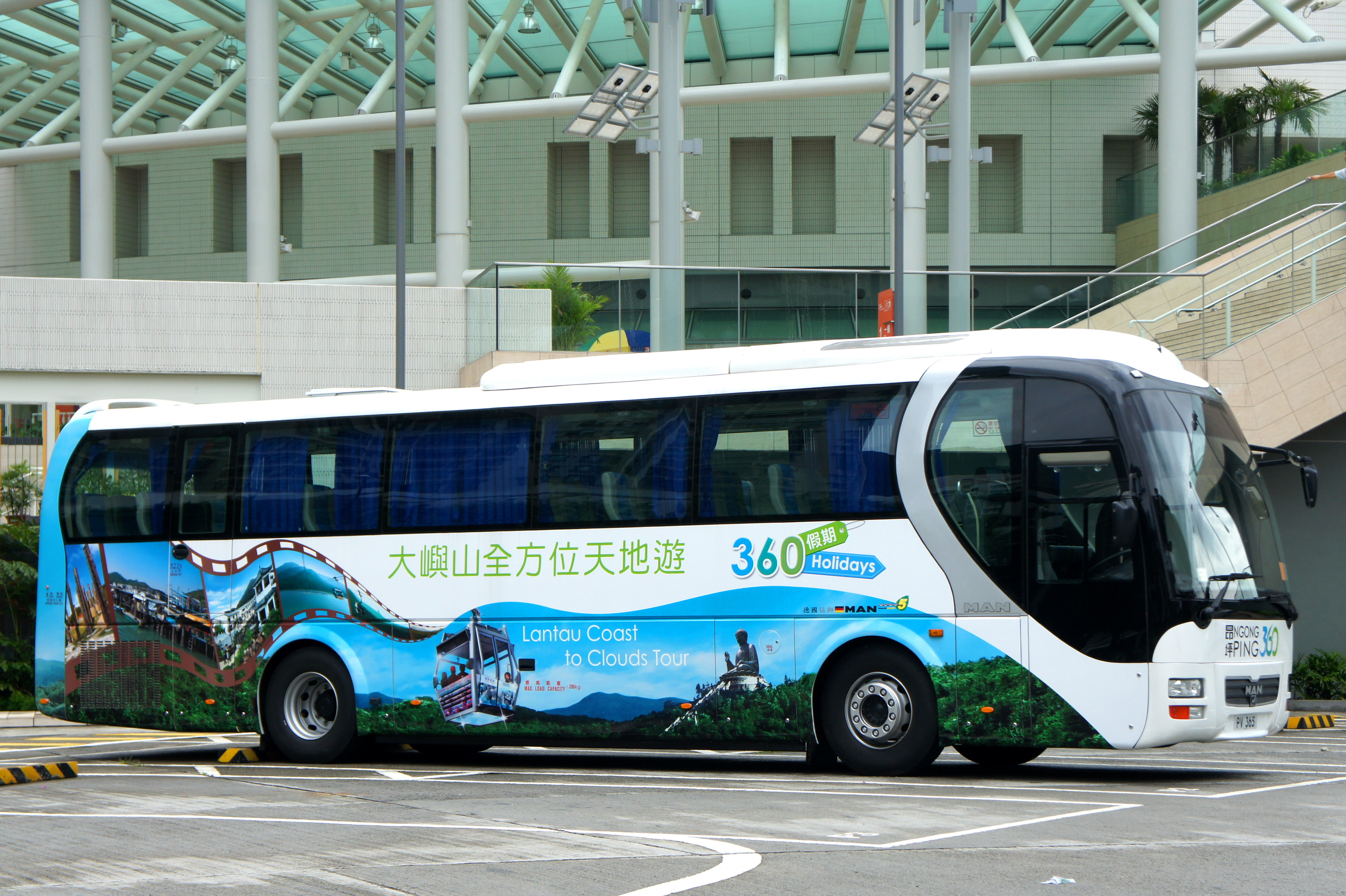 The NP360 Experience: 360 Holidays Guided Tour tour bus